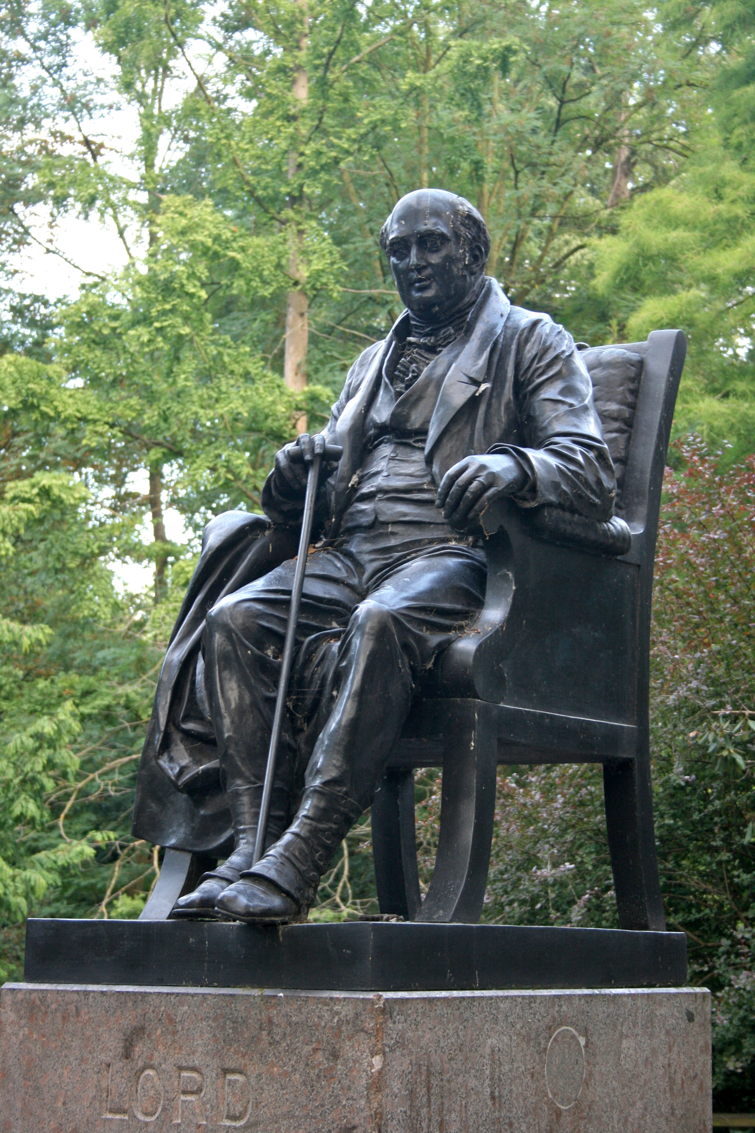 Statue of Henry Vassall-Fox, 3rd Baron Holland in Holland Park, London.